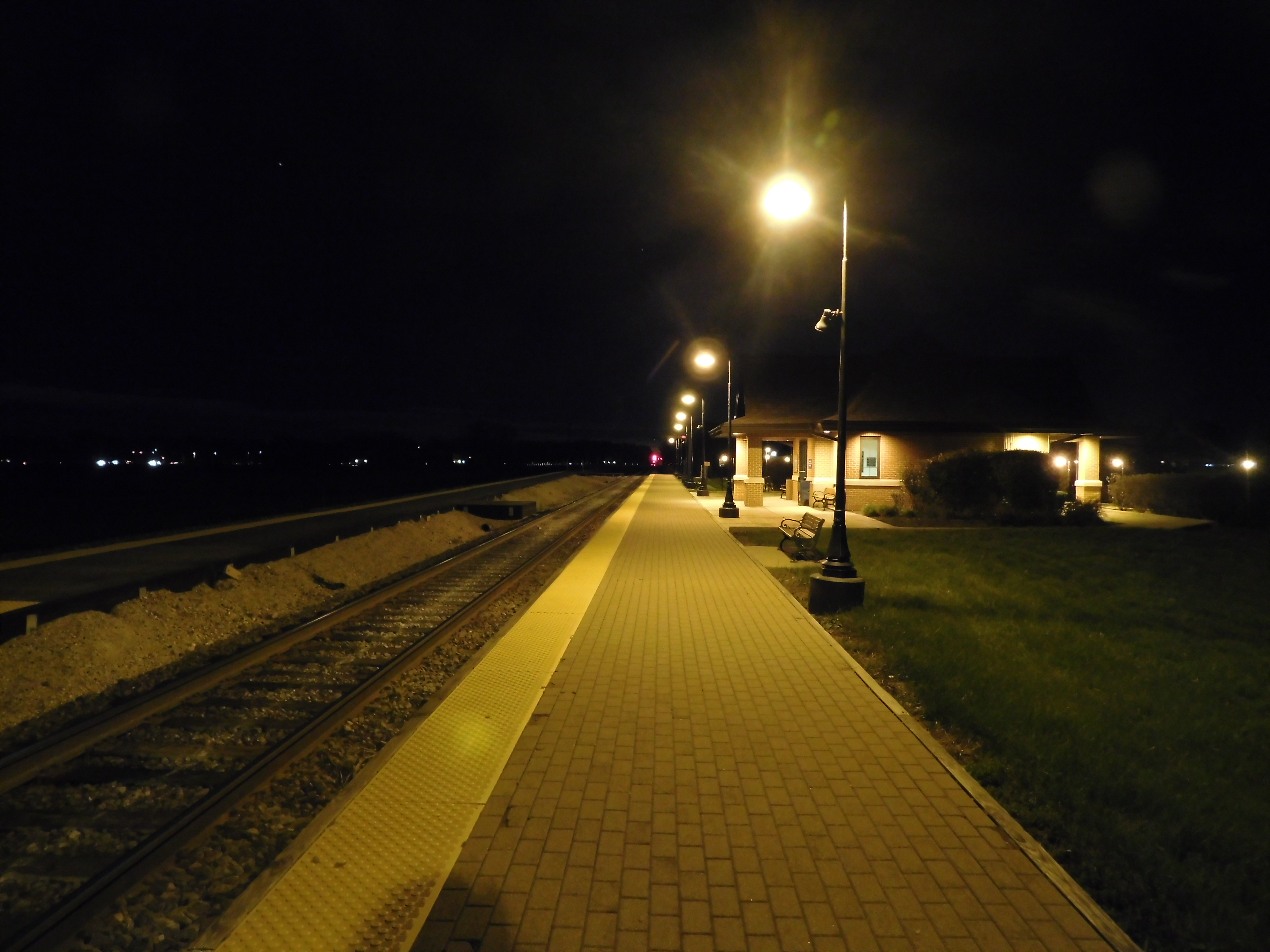 The Washington Street station of Metra's North Central Service.